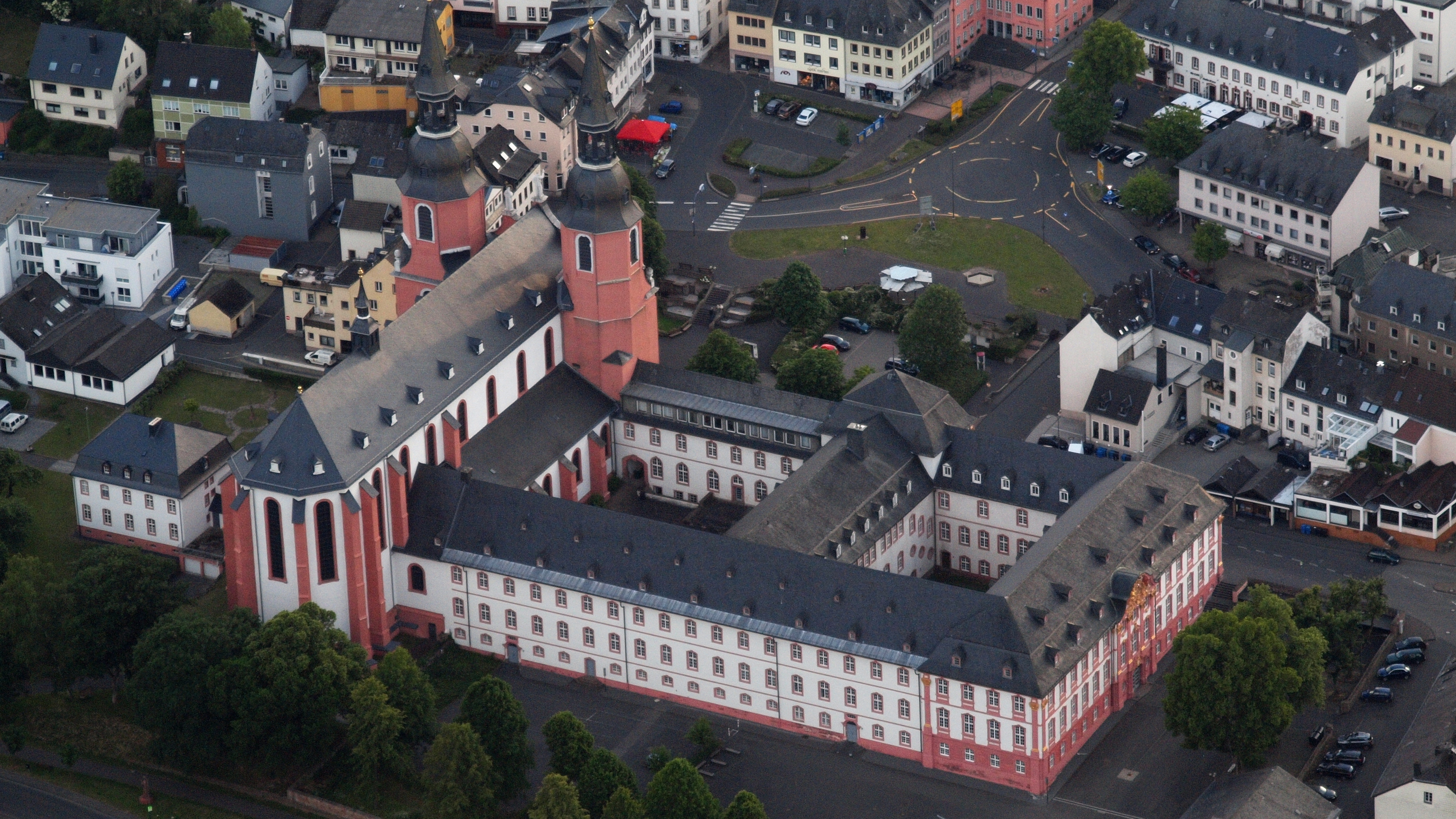 Aerial photo of the former Abbey of Prüm, Rhineland-Palatia, Germany (2015)